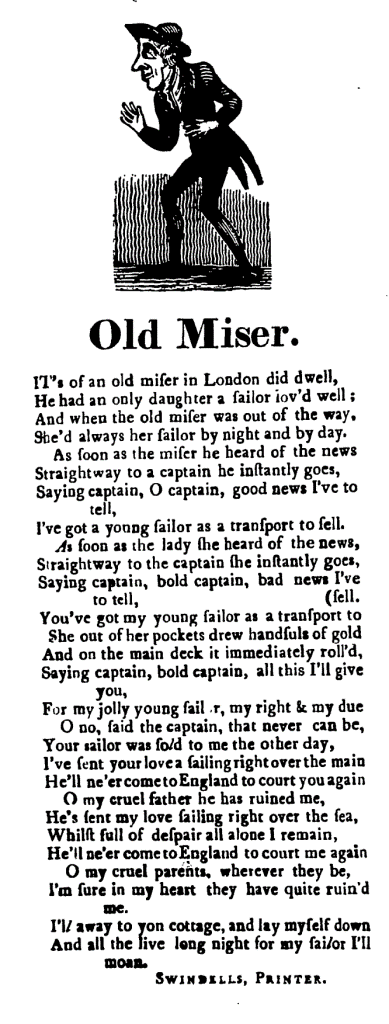 An English broadside ballad titled "Old Miser" and beginning "It's an old miser in London did dwell", early 19th century